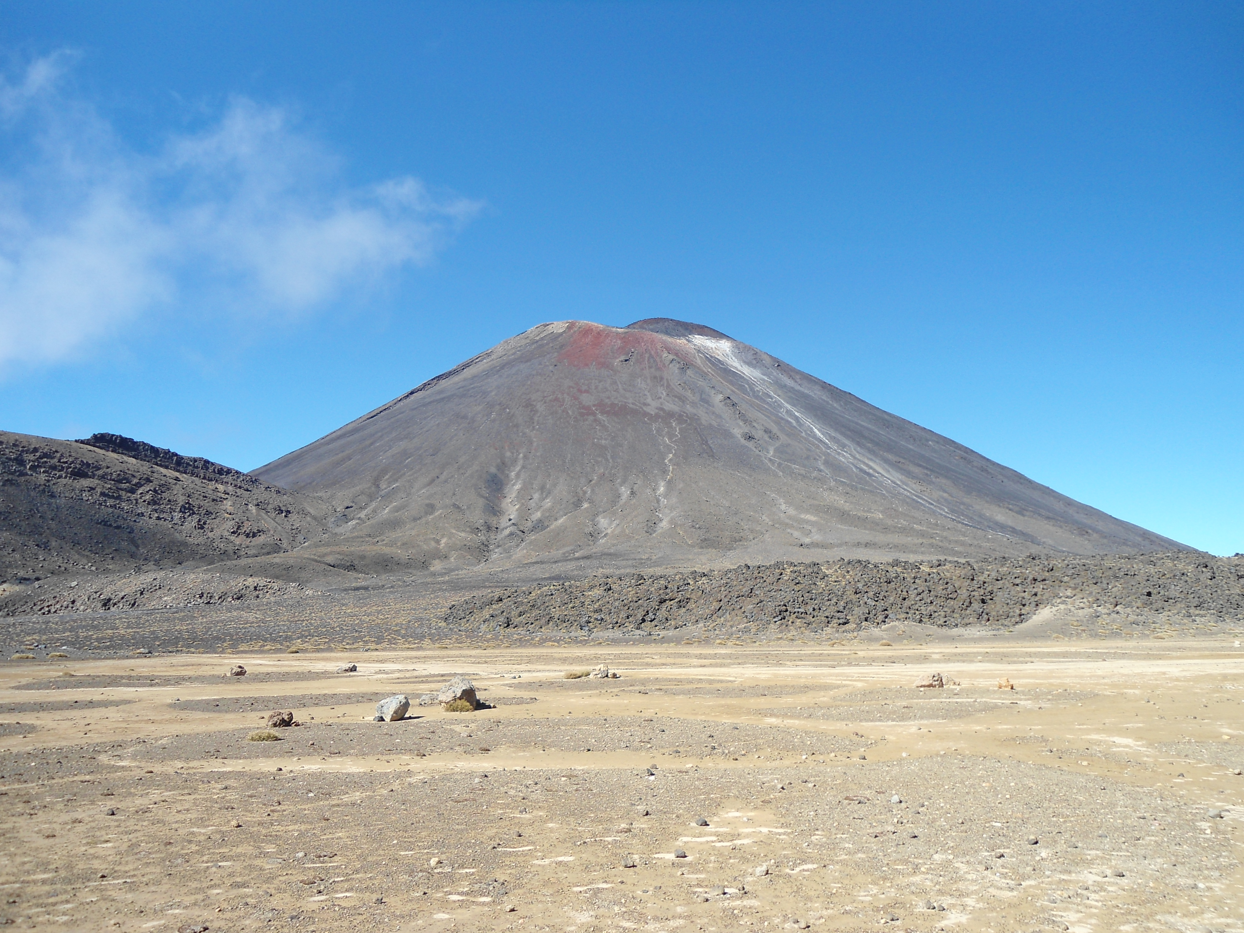 Tongariro National Park